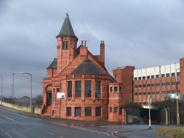 The Old Library, Holbeck. On the junction of Jack Lane and Marshall Street. Kays catalogue Co. behind.